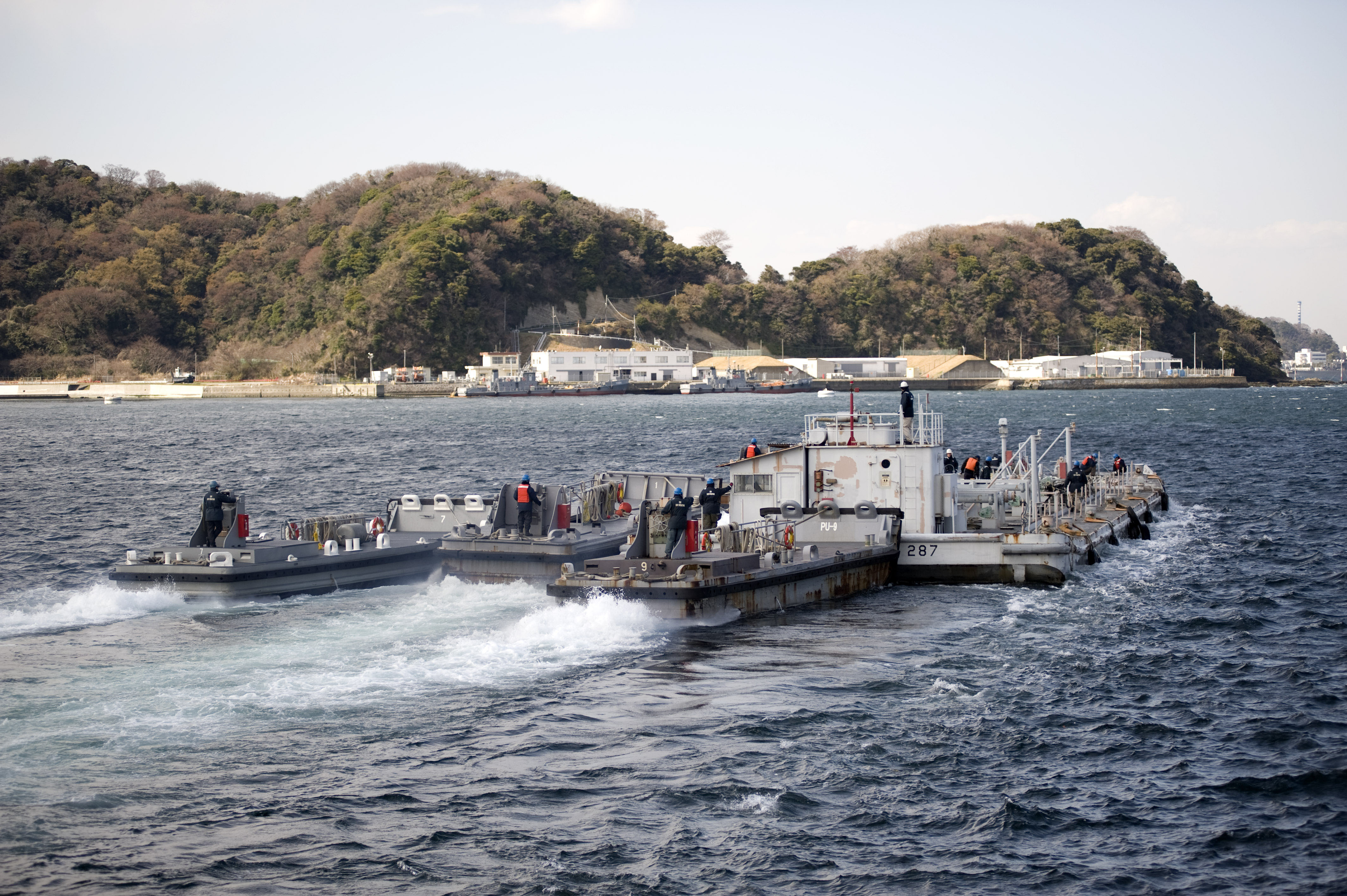 US Navy Barge YON-287, carrying 851,000 litres (225,000 gallons) of fresh water, departs Fleet Activities Yokosuka (CFAY) to support cooling efforts at the Fukushima Daiichi nuclear power plant. YON-287 is the second of two barges supplied by the U.S. Navy to the government of Japan to aid in the cooling efforts. The two barges supplied a total of 1.89 million liters (500,000 gallons) of fresh water.